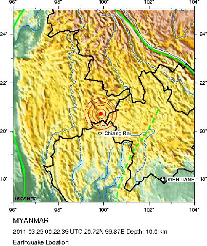 Earthquake in the northeastern part of Myanmar, 90 km (55 miles) N of Chiang Rai, Thailand Location: 20.724°N, 99.873°E Time: Friday, March 25, 2011 at 00:22:39 UTC Magnitude: 5.0